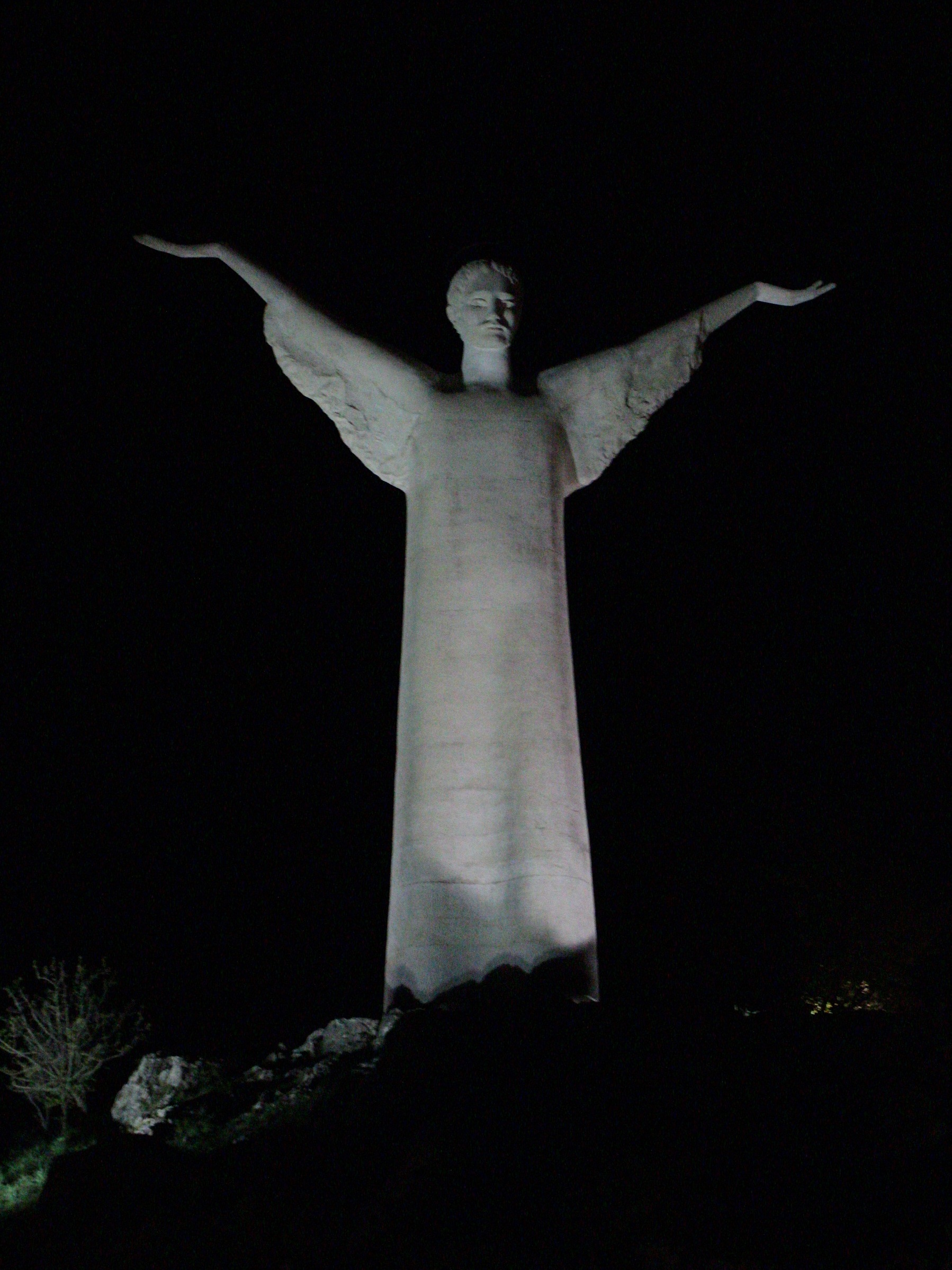 The statue of the Christ in Maratea on night.